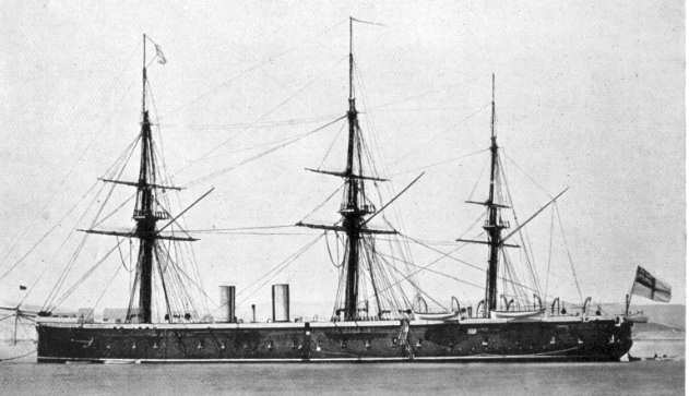 British ironclad HMS Achilles, launched in 1863 and completed in 1864